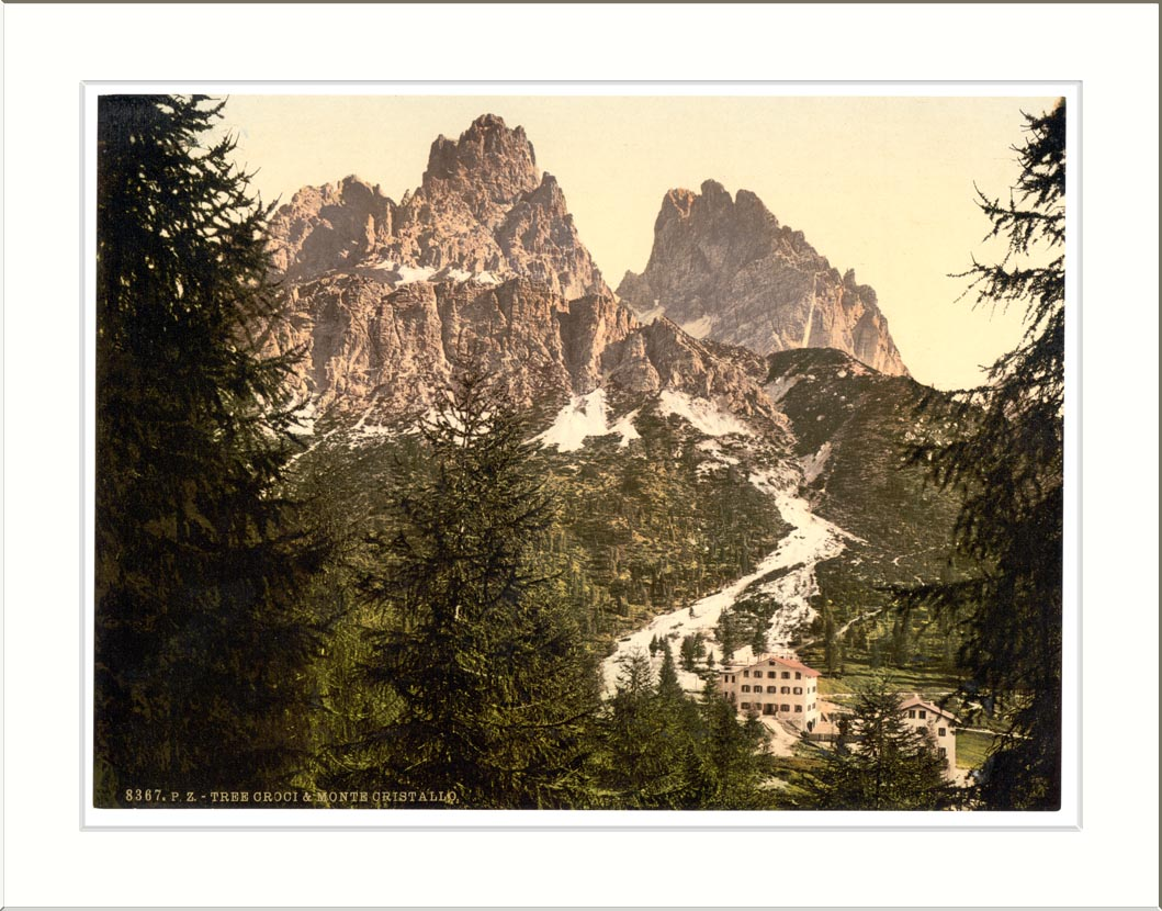 Monte Cristallo with Tre Croci Tyrol Austro-Hungary